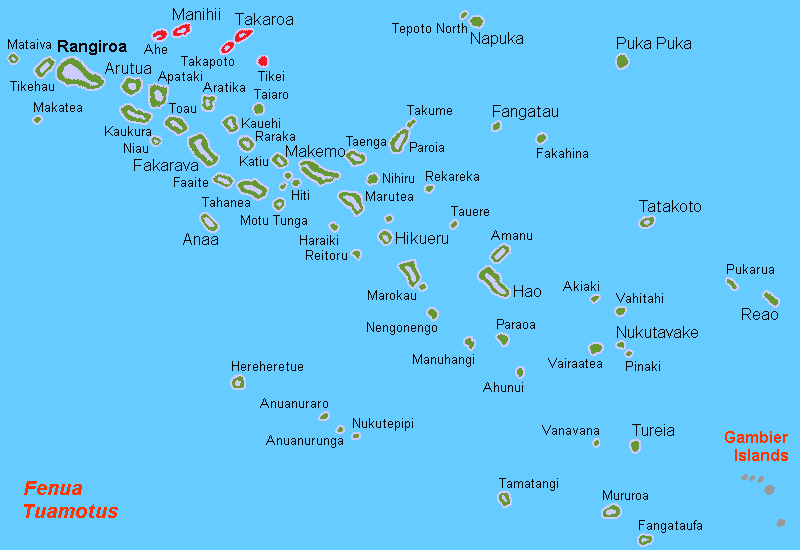 Map of the Tuamotus in French Polynesia with King George Islands highlighted in red.